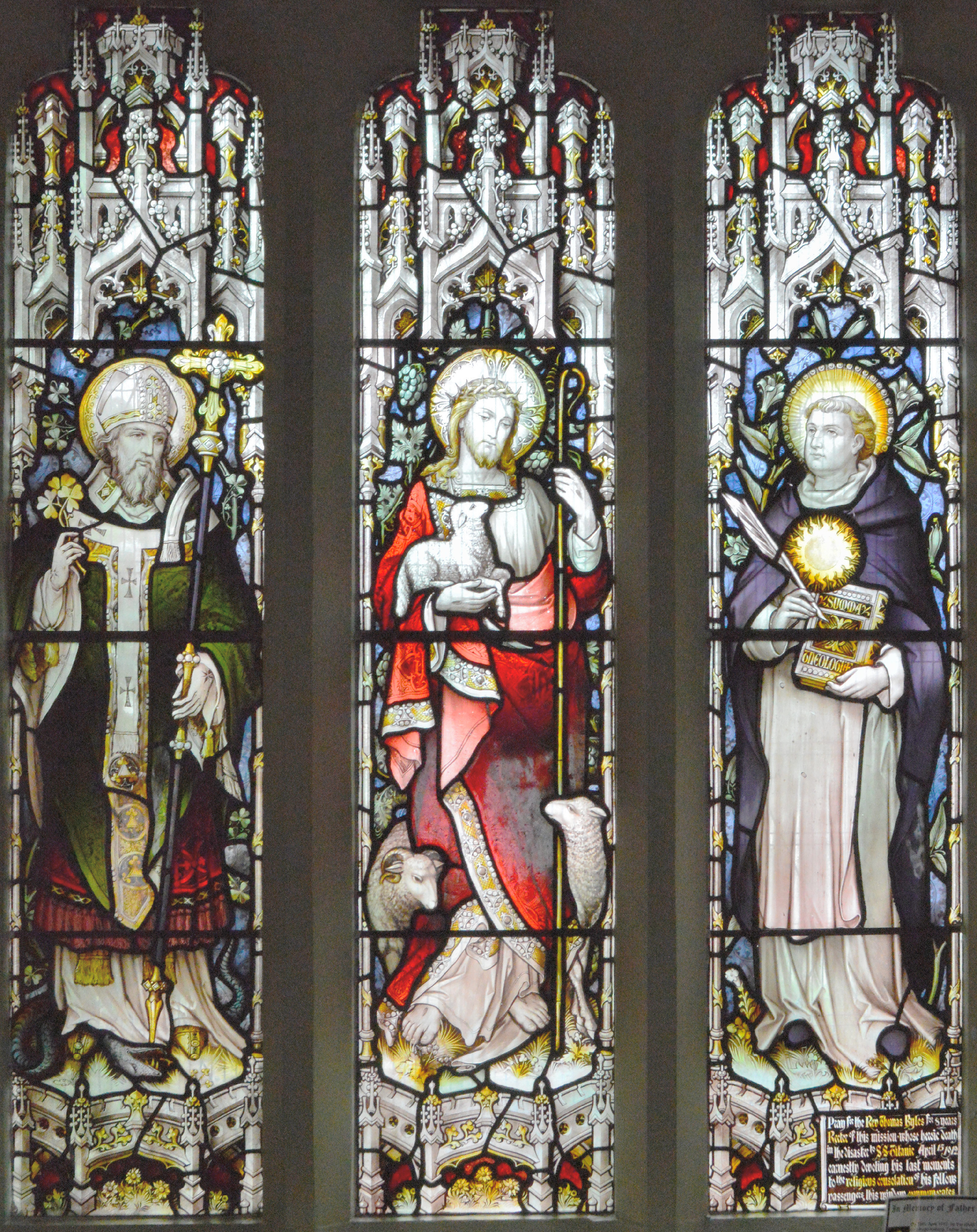 Chipping Ongar, St Helens Catholic Church, Father Thomas Byles window. The inscription reads "Pray for the Rev Thomas Byles for 8 years Rector of this mission whose heroic death in the disaster to S.S. Titanic April 15 1912 earnestly devoting his last moments to the religious consolation of his fellow passengers, this window commemorates" The window dedicated to him shows St. Patrick, the Good Shepherd, and St. Thomas Aquinas. On 15th April 1912, as the RMS Titanic floundered on a huge iceberg, Father Byles refused a place in a lifeboat, to stay and comfort the many hundreds of people still stranded aboard. Reports say that people in the lifeboats could hear him reciting his Rosary to the very end.